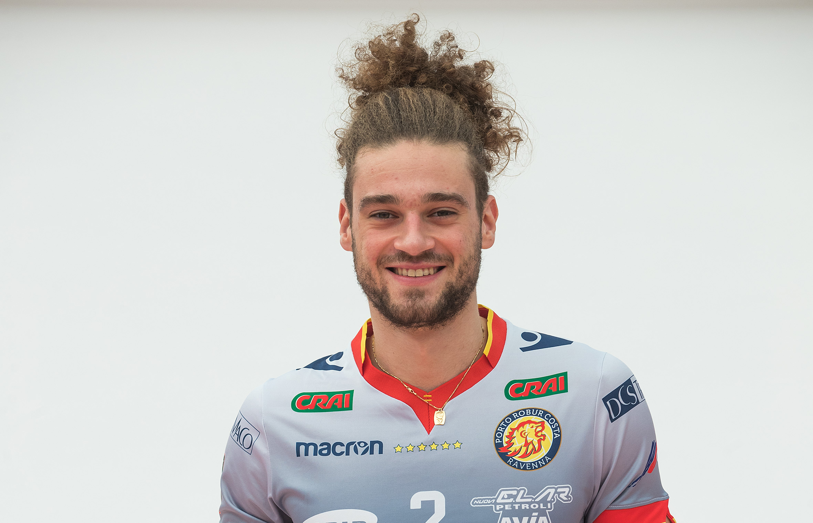 profile image of Kamil Rychlicki, volleyball player (LUX)